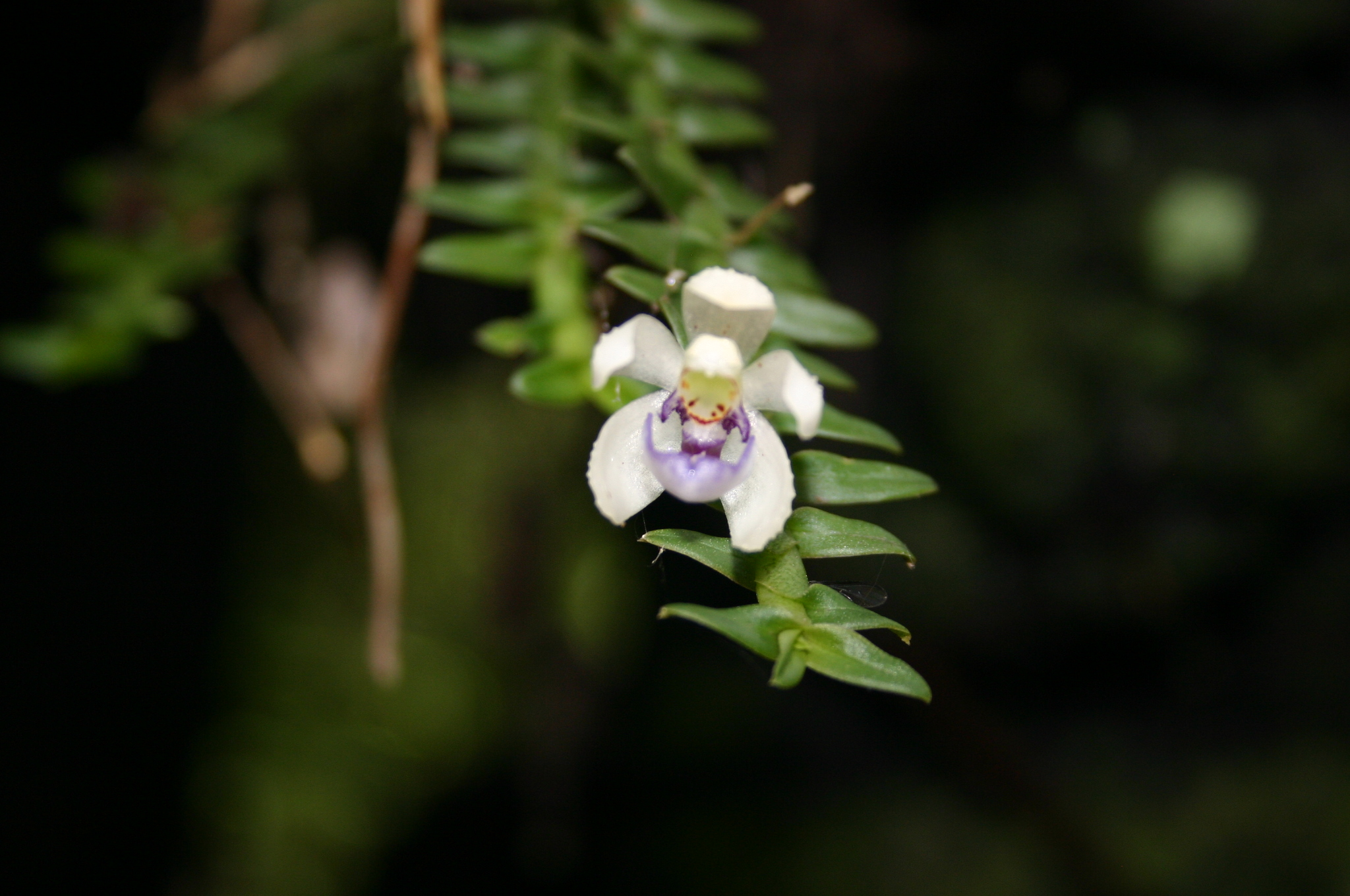 Dichaea squarrosa in Huitepec State park, Chiapas Mexico Author: Lucas renique